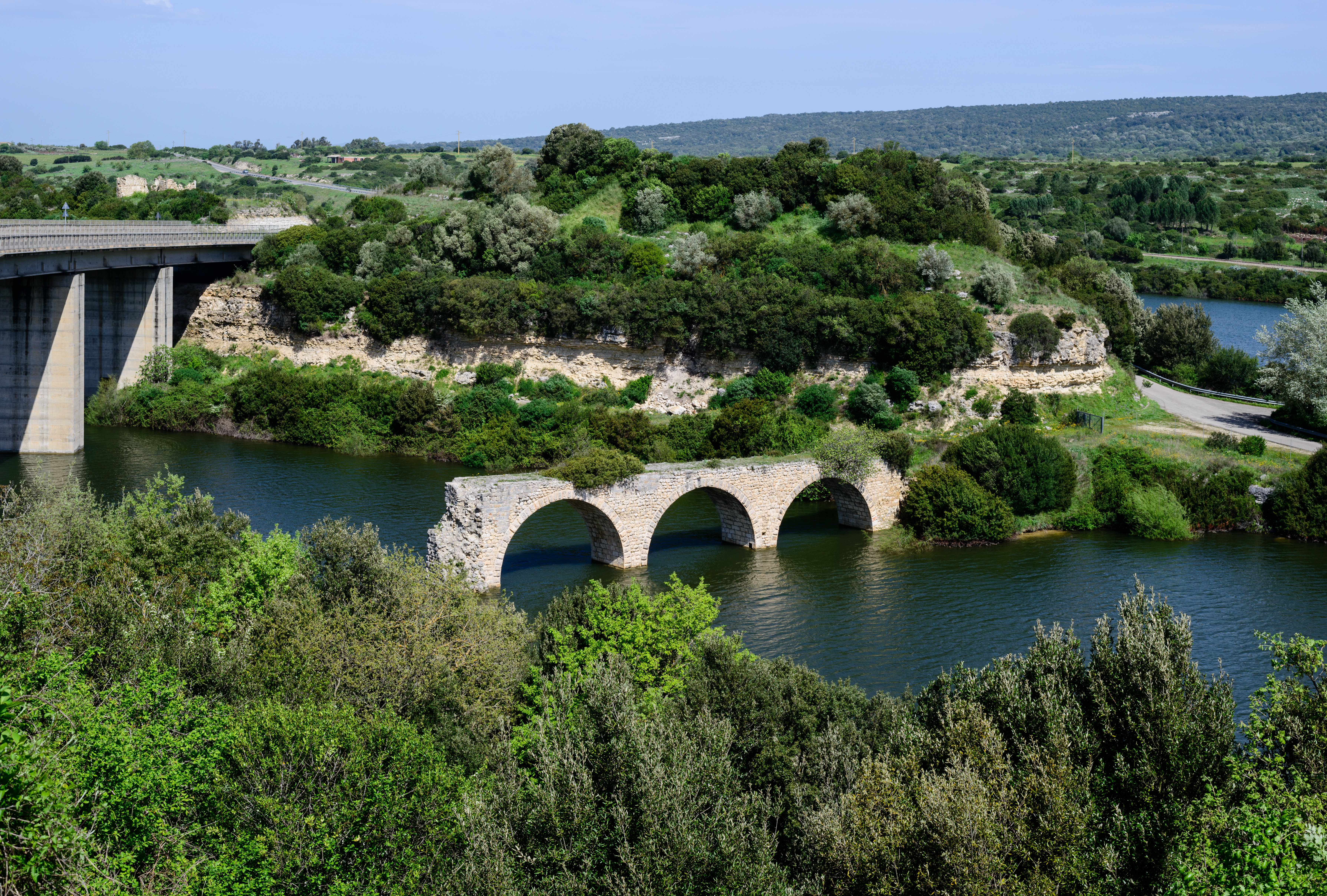 Lago Is Barrocus near Isili, Sardinia, Italy.